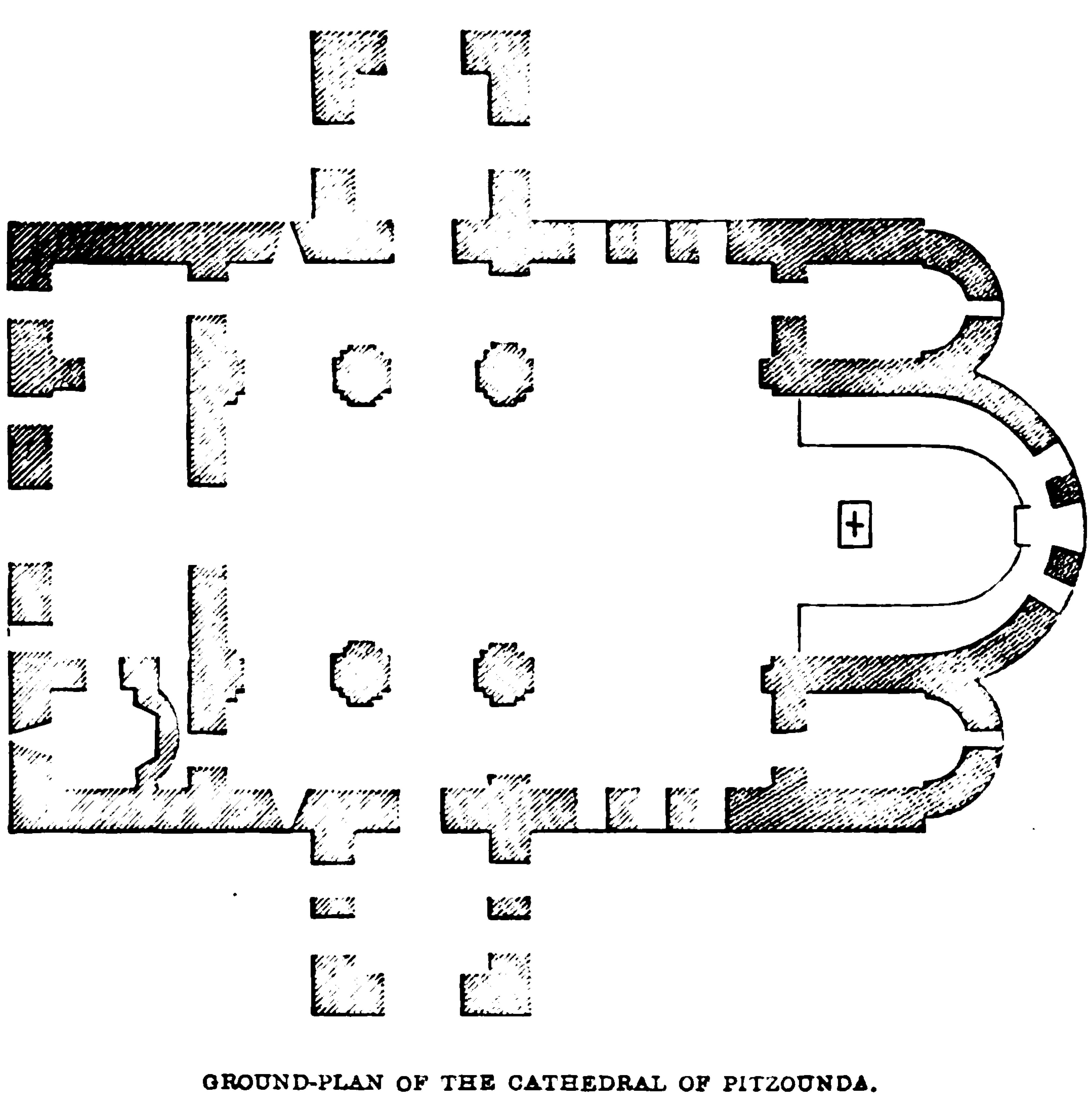 Ground-Plan of the Church of Pizounda John M. Neale, A history of the Holy Eastern Church: General introduction, Volume 1